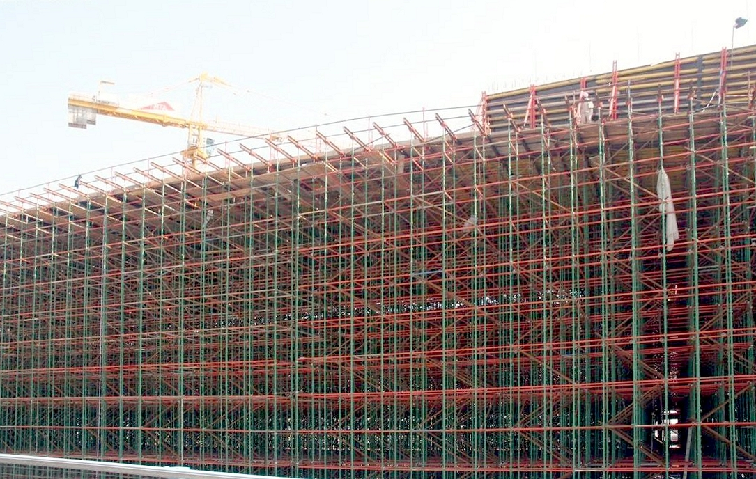 This is a photo showing the construction of the new Al Garhoud Bridge over Dubai Creek in Dubai, United Arab Emirates on 31 January 2007.